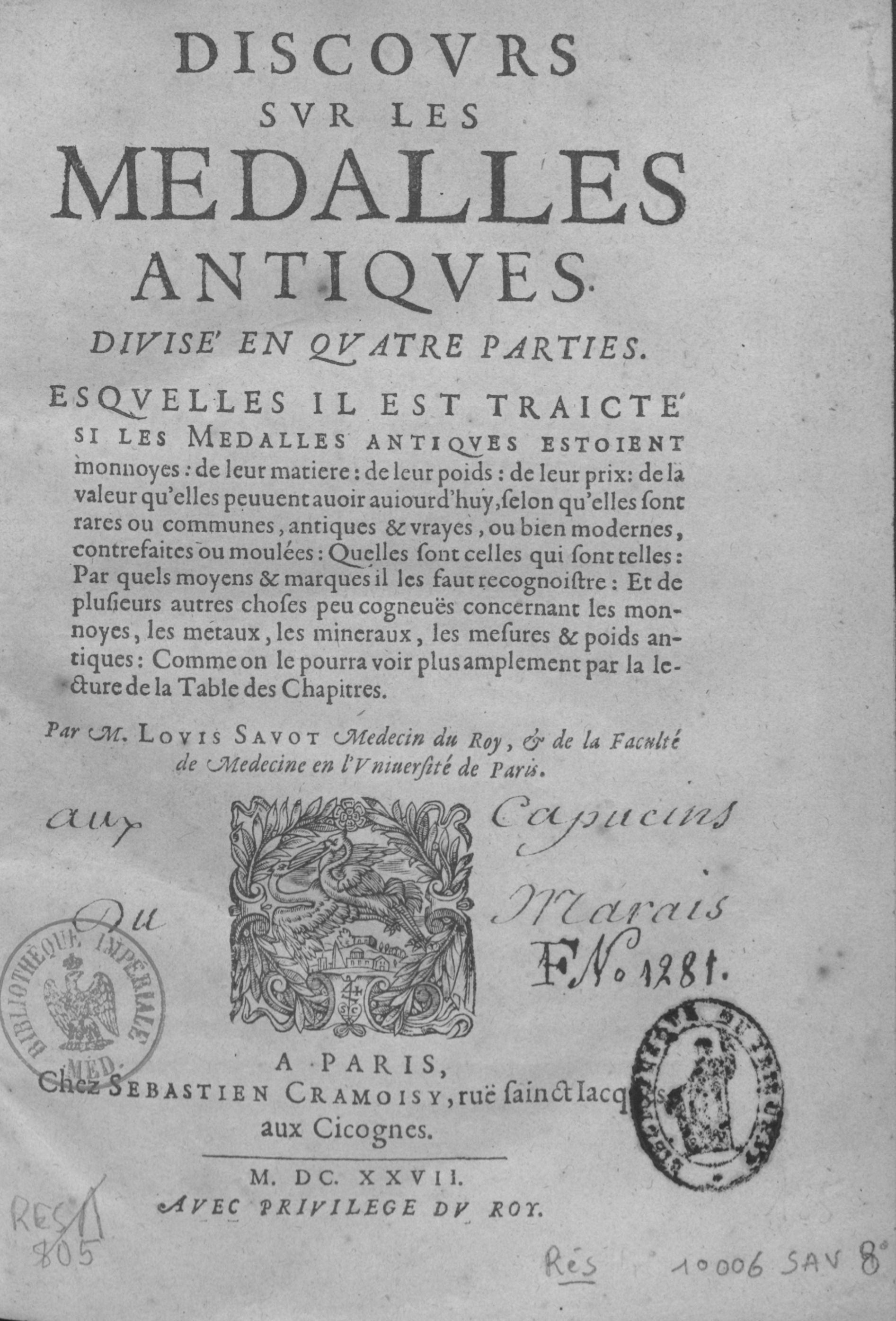 Title page of Discours sur les médailles antiques... by Louis Savot (originally published in 1627)